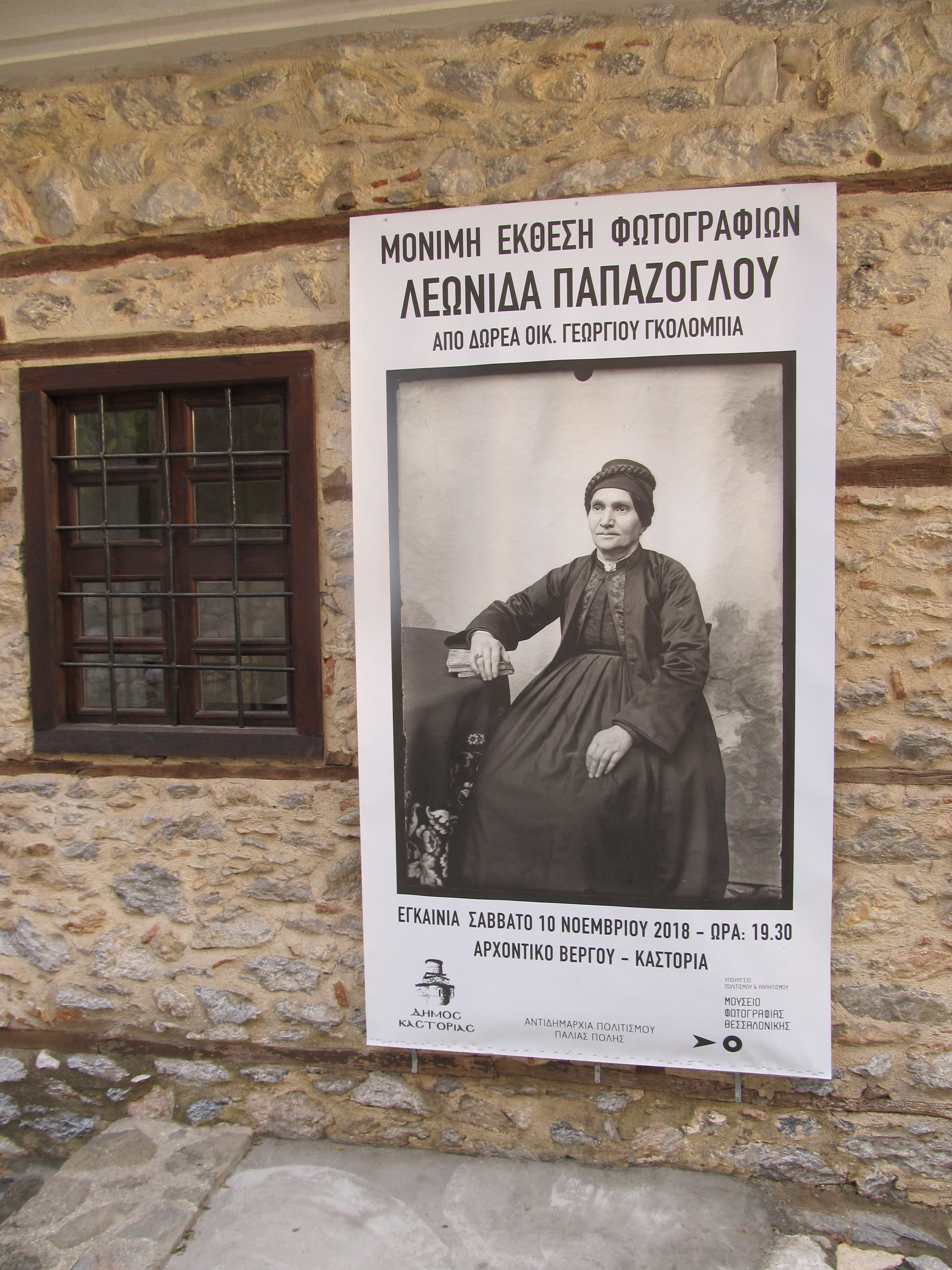 Poster before the Permanent Exhibition of Photographs by Leonidas Papazoglu in Kastoria, Northern Greece